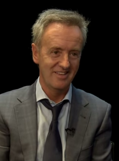 Spanish Actor Carlos Hipólito